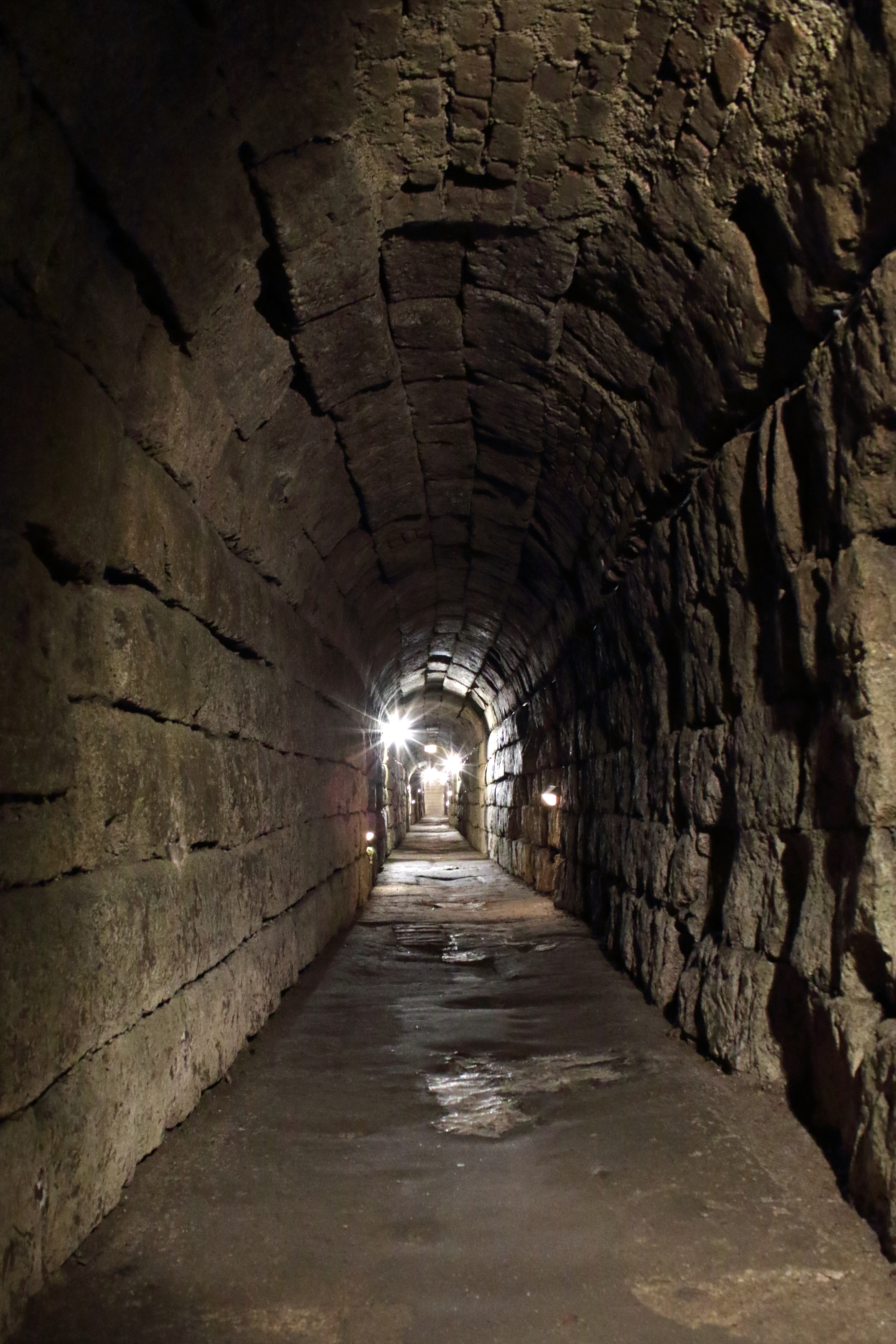 Remains of a roman sewer located at the archeologische zone Köln.